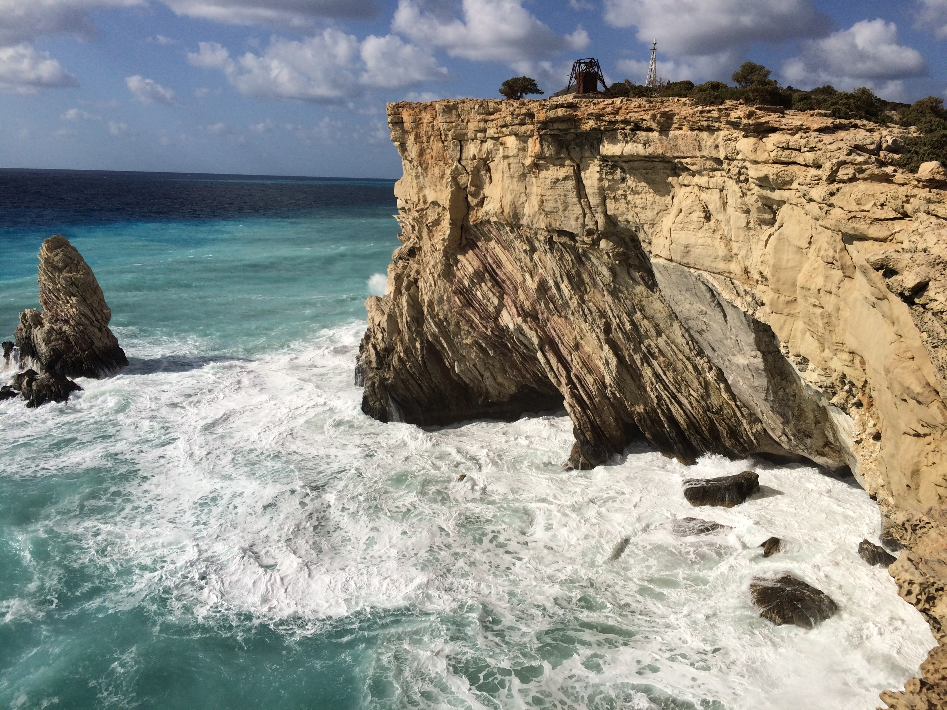 Gavdos, Tripiti Beach